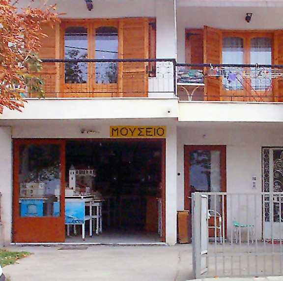 Outside view, image from the Monuments Museum, Kastoria, West Macedonia, Greece